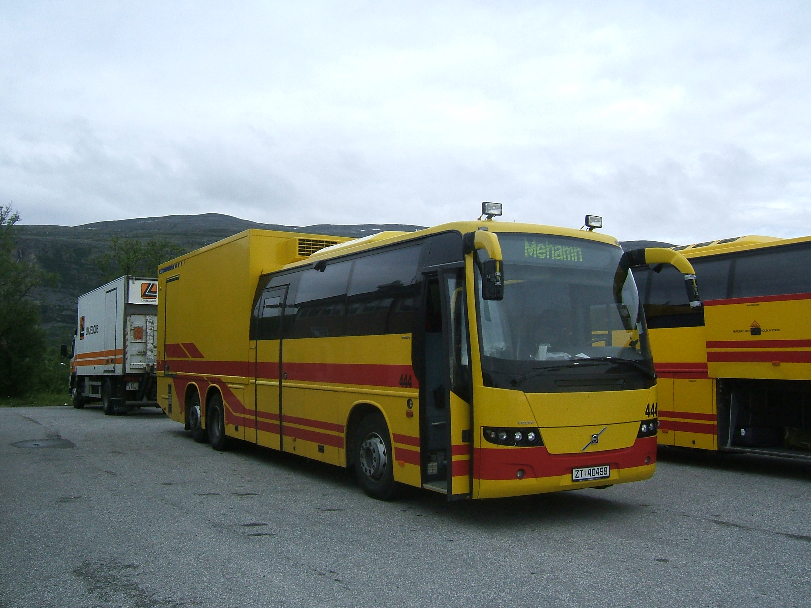 Mixed bus